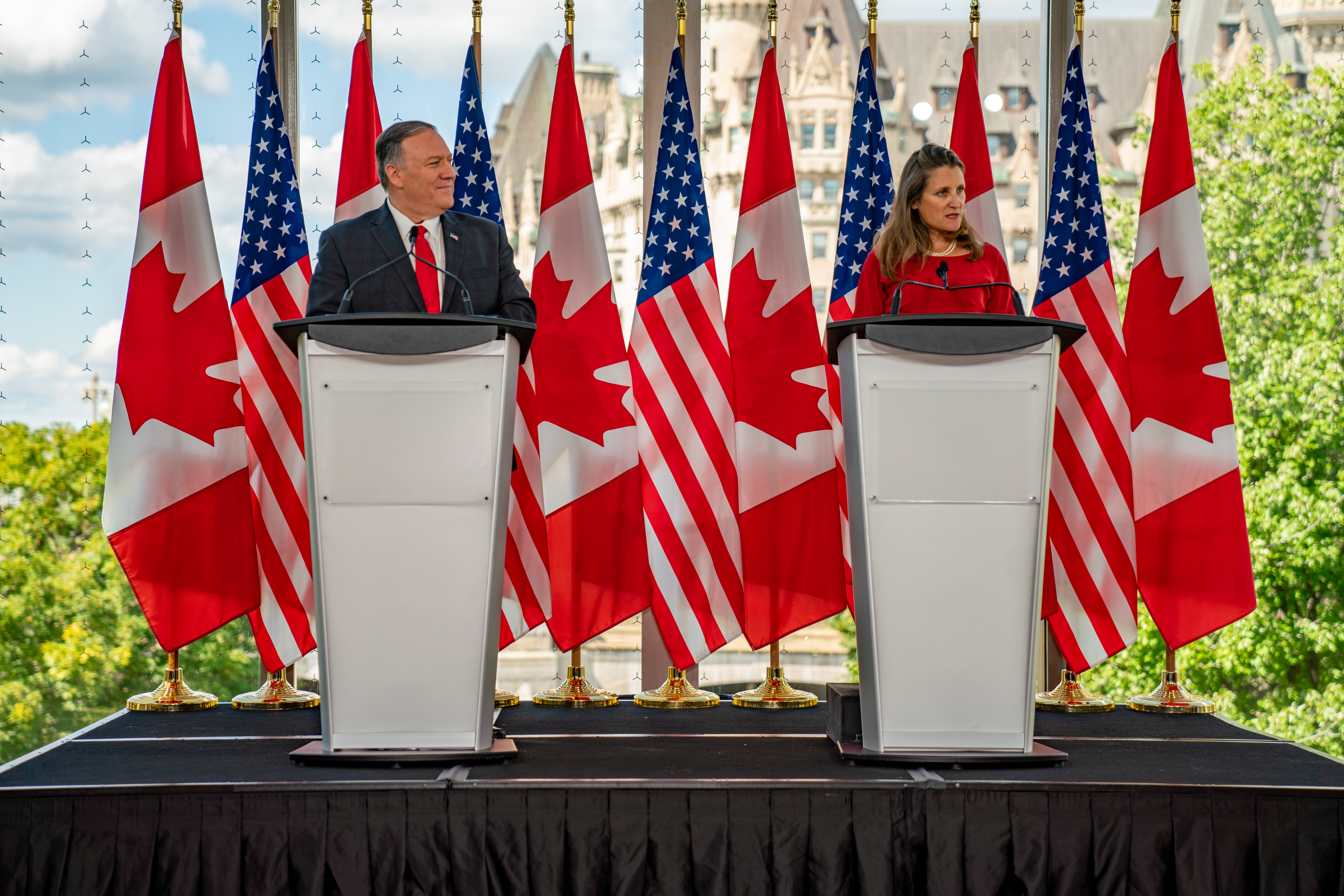 U.S. Secretary of State Michael R. Pompeo participates in a joint press availability with Canadian Foreign Minister Chrystia Freeland at the National Arts Center, O’Born Room in Ottawa, Canada on August 22, 2019. [State Department photo by Ron Przysucha/ Public Domain]